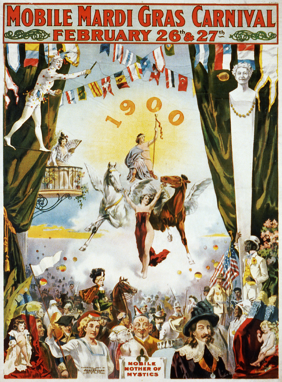 Promotional poster for the Mobile Mardi Gras Carnival, February 26th & 27th 1900. Mobile Mother of Mystics.